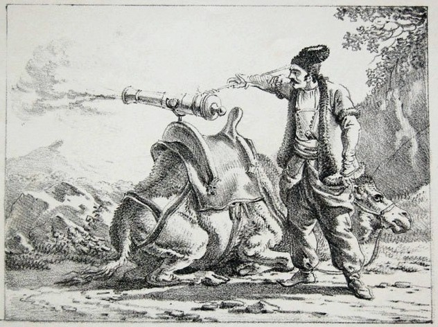 A lithograph depicting a zamburak or camel artillery